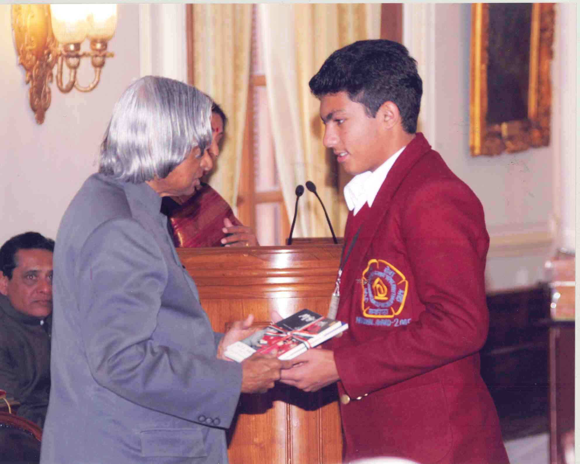 Sanmesh with Dr. Abdul Kalam, President of India